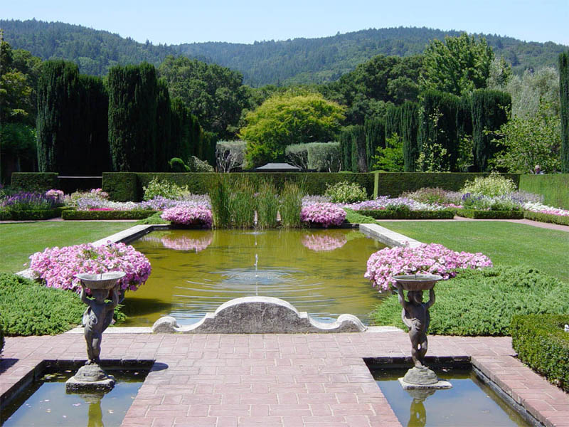 A garden pool at Filoli mansion. This is one of several formal gardens on the estate. A far greater area is devoted to the growing of flowers and vegetables in working gardens. The dark green trees are Irish Yew trees, grown from small cuttings. Beyond the hedge is a large swimming pool. The roofed structure partially seen is a three sided glass wind shelter. Most of the garden care and the guiding of tours is provided by local volunteers. A groundskeeper can be seen at the right trimming the hedge with hand shears. (Note the extremely accurate lines and crisp edges of the hedge.) The mountains in the background are part of the Coast Range. Between the estate and the mountains lies the San Andreas Fault.